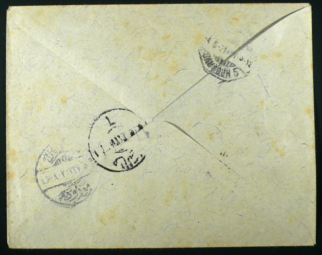 A 1921 cover posted with Hejaz Railway revenues of 1918 issue surcharged as postage stamps. Back of the cover to show postmarks.